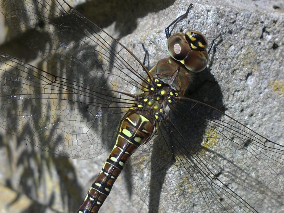 A close up of the Migrant Hawker Dragonfly